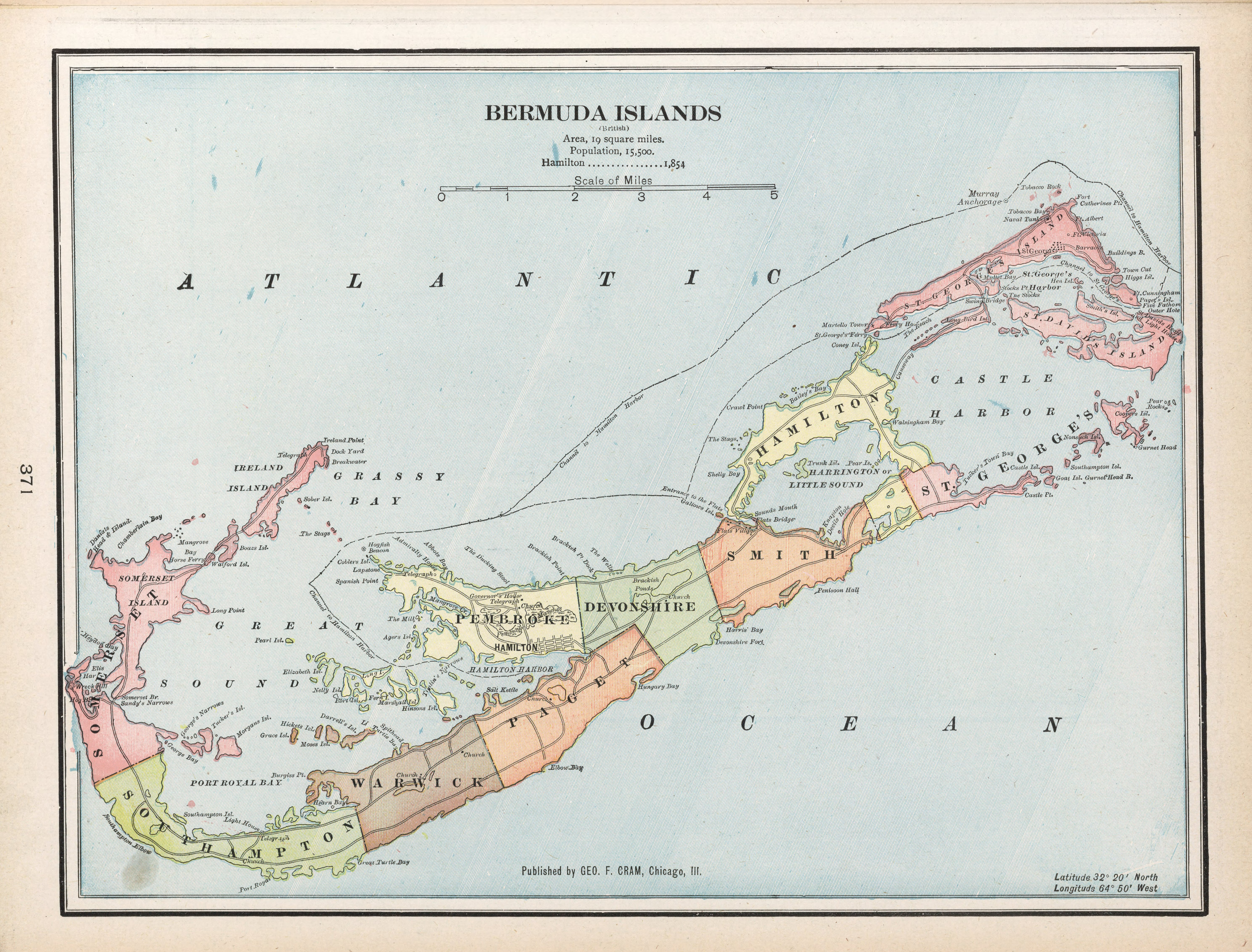 Atlas page with Bermuda Islands, Cram's Atlas of the World, page 371, original size 26 cm x 35 cm, scale 1:80,000